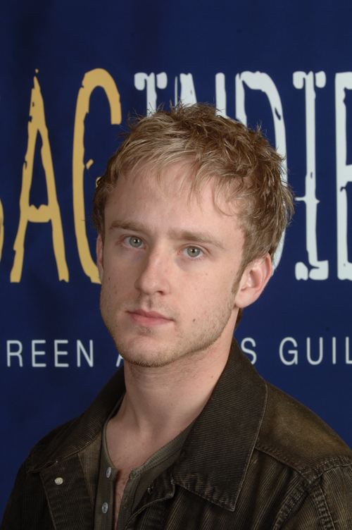 Ben Foster, American actor